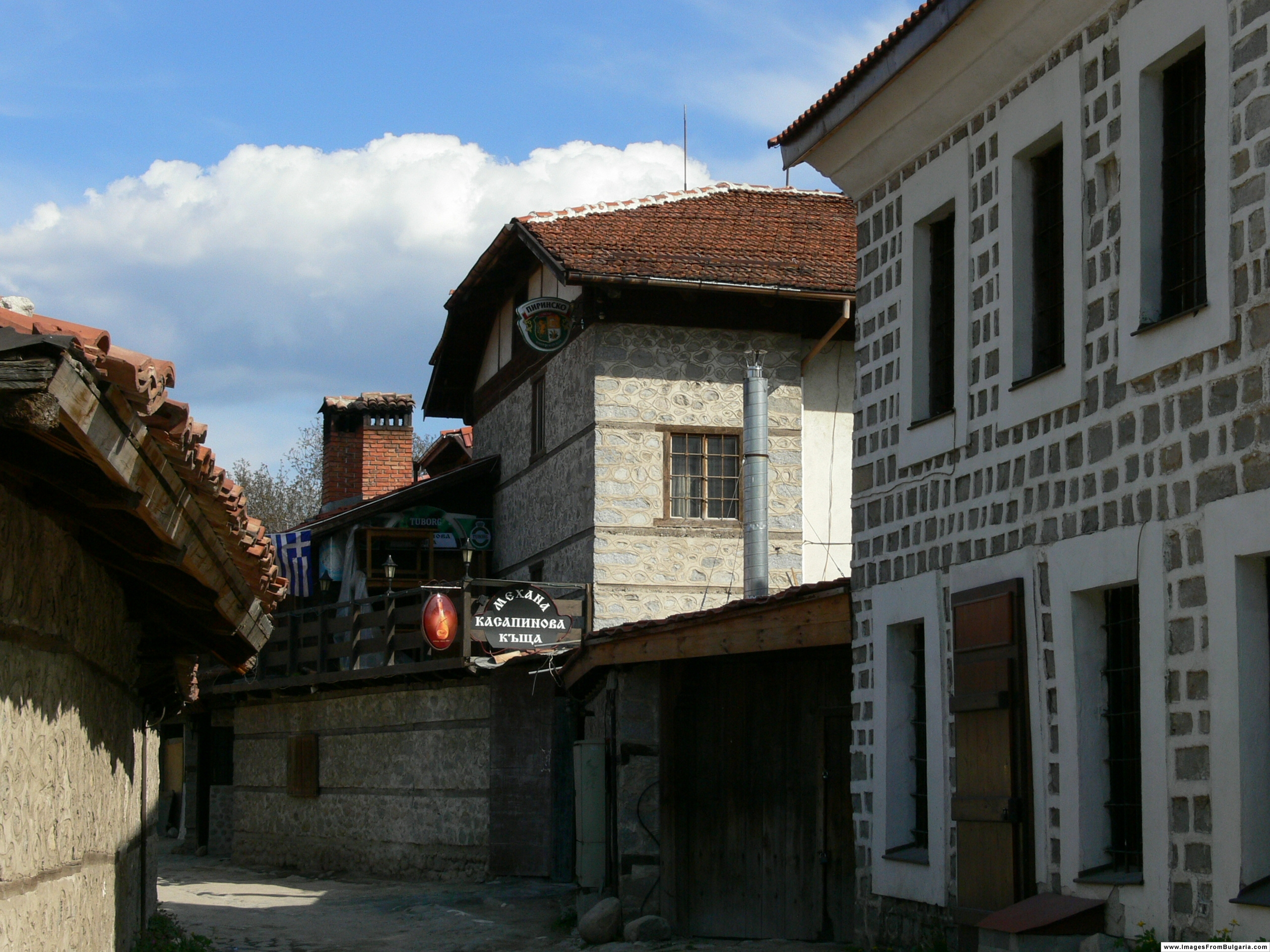 A view of Bansko